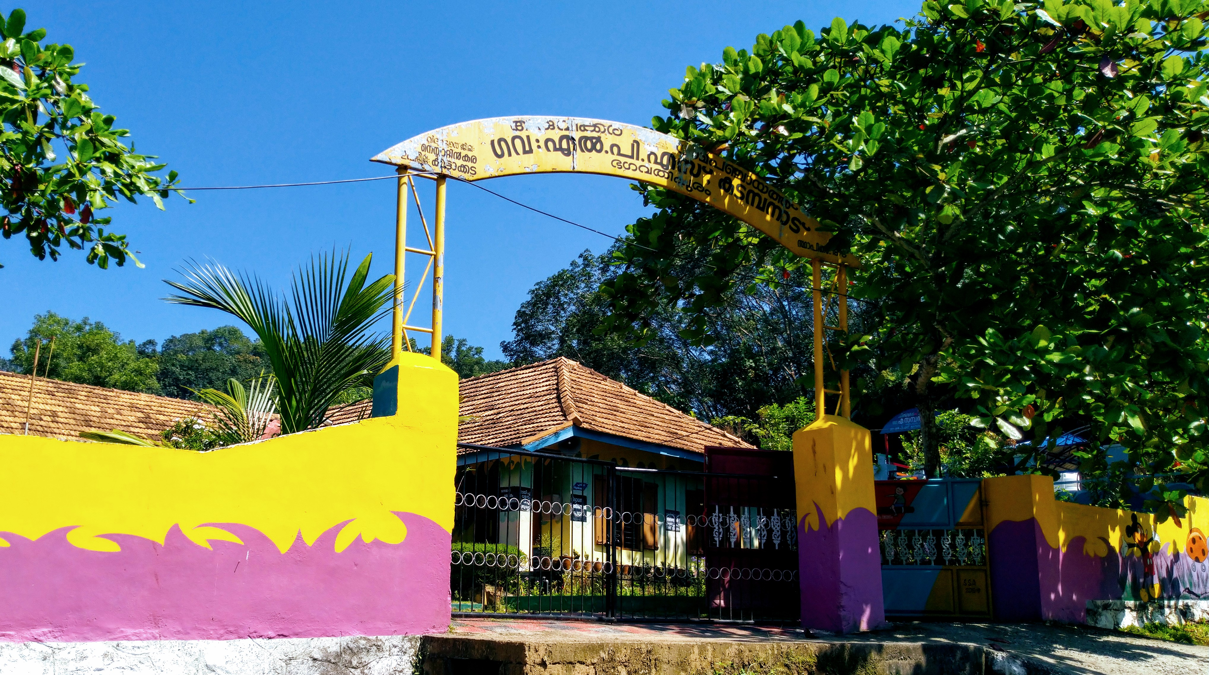 Entrance of Govt. LPS Kadampanad, Bhagavathypuram